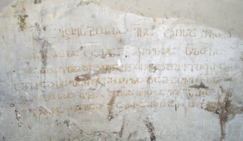 A Georgian asomtavruli inscription from the Ateni Sioni church, mentioning the Abbasid sack of Tbilisi and capture of the noble Kakhay. 853 Modern rendition: † თ~სა აგუსტოსსა ე~სა დღ~სა შბთ[ს]ა ქრონიკონსა ო~გსა ისმაიტელთა წელსა ს~ლთსა ქალაქი ტფილისი დაწუა ბუღა და შეიპყრა ამირაჲ საჰაკ და მოკლა და მასვე თ~სა [აგუ]სტოსსა კ~ვსა დღ~სა შბ~თსავე ზირაქ შეიპყრა კახაჲ და ძჱ მისი თარჴუჯი